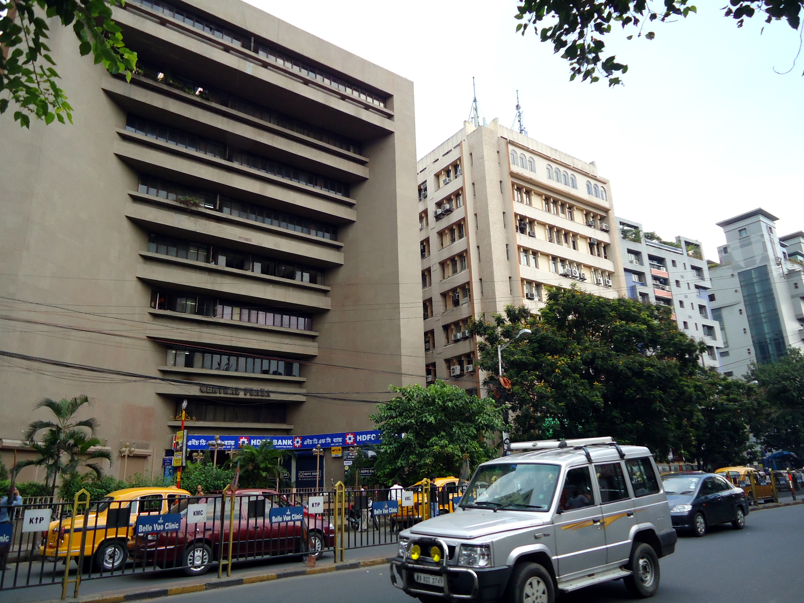 Sarat Bose Road view